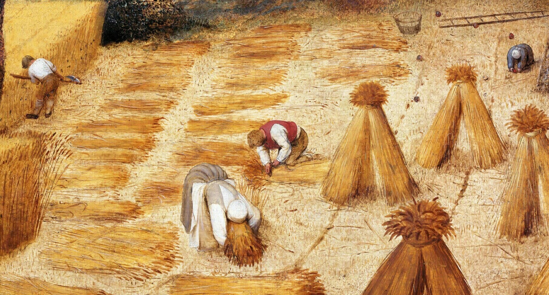 Part of the series {name }.